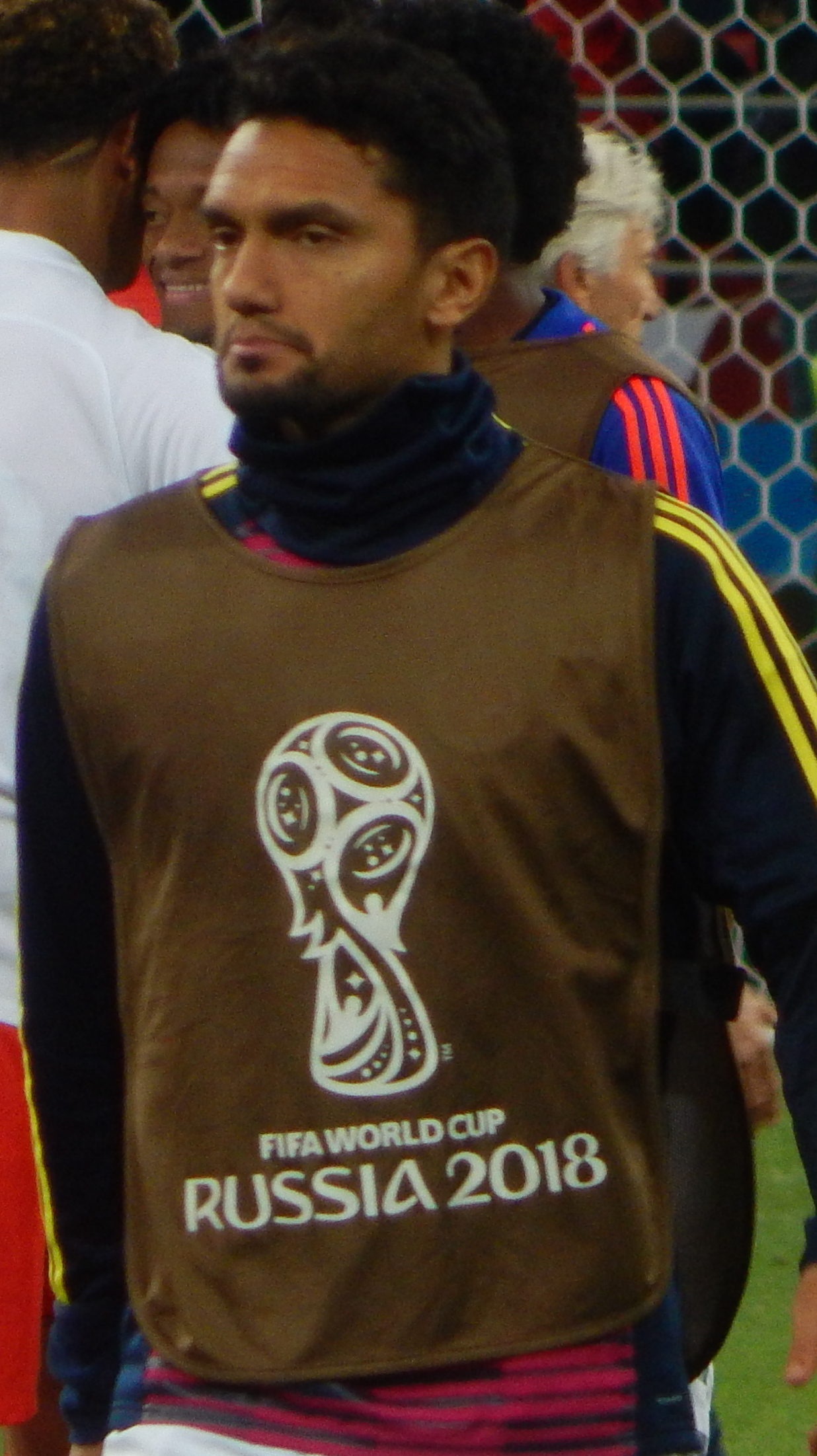 FIFA World Cup 2018, Round of 16, Colombia vs. England